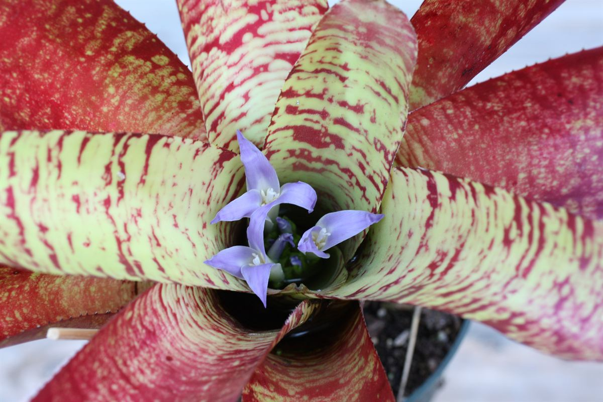 Neoregelia rubrovittata flowers